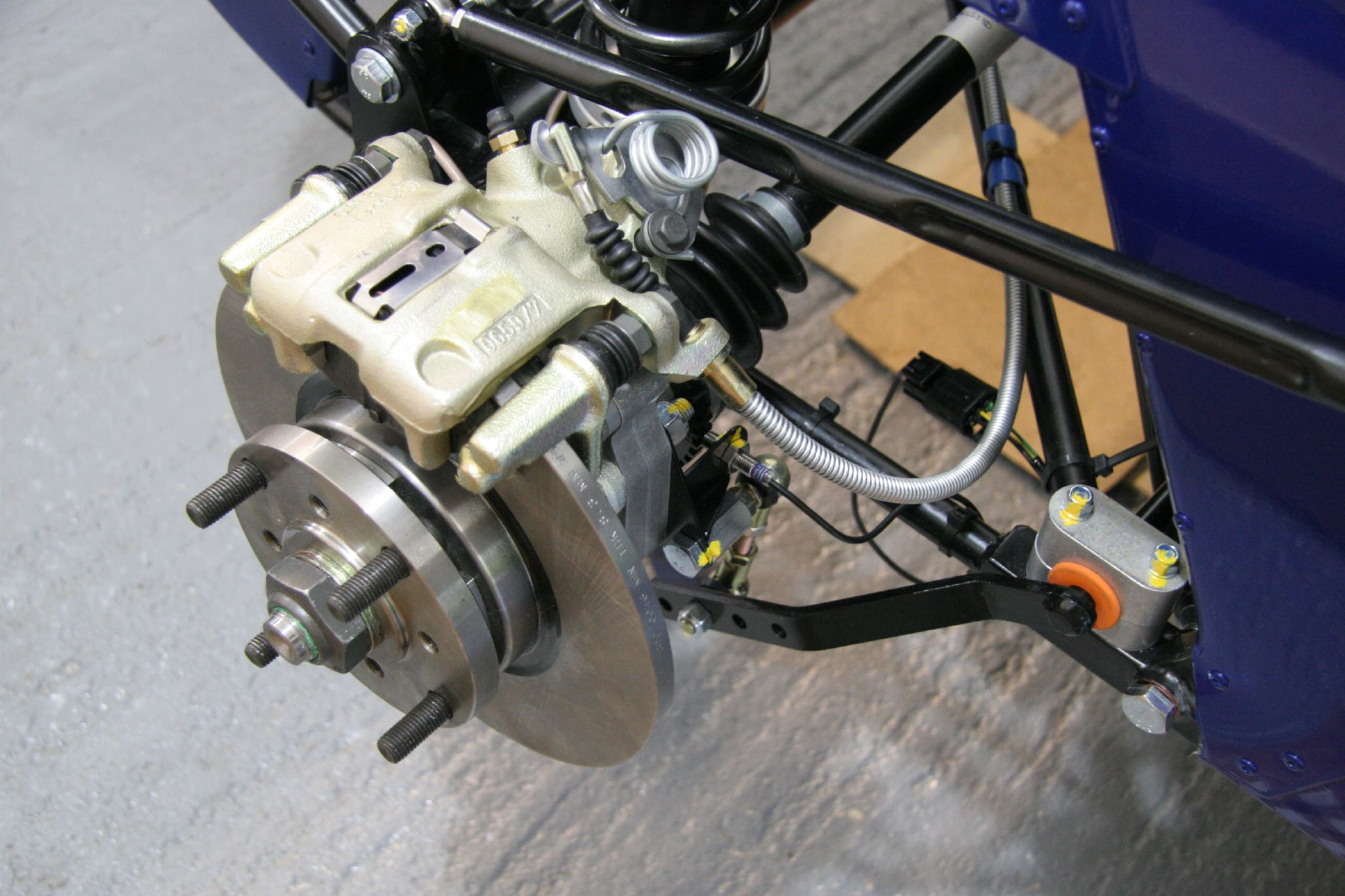 I need to decide where to cable tie the speed sensor cable and loom connector to keep it tidy and allow for suspension movement